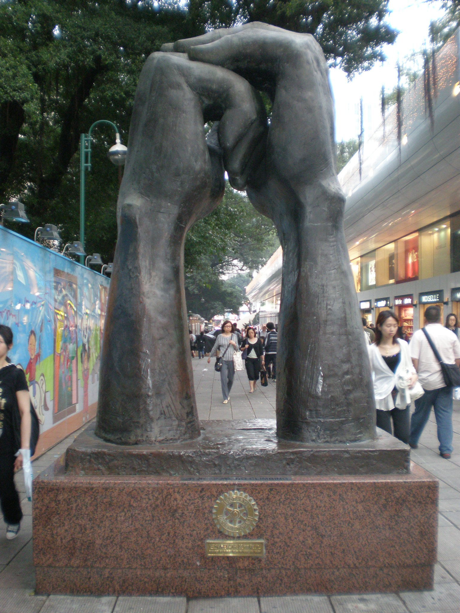 A statue by Van Lau on Nathan Road near the eastern entrance to Kowloon Park in Kowloon, Hong Kong. Donated by the Rotary Club of Kowloon West.